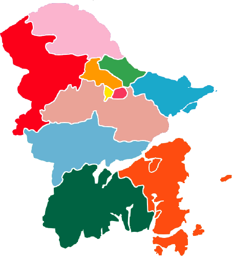 Subdivision of Ningbo